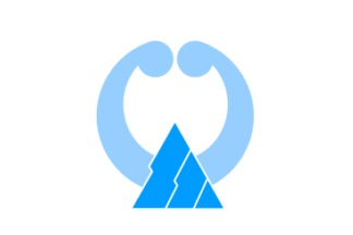 Flag of Namerikawa Toyama